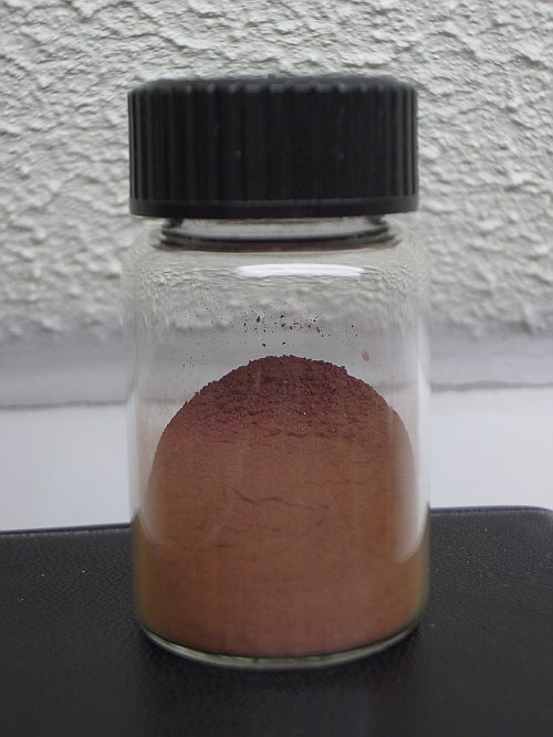 Very fine red phosphorus powder